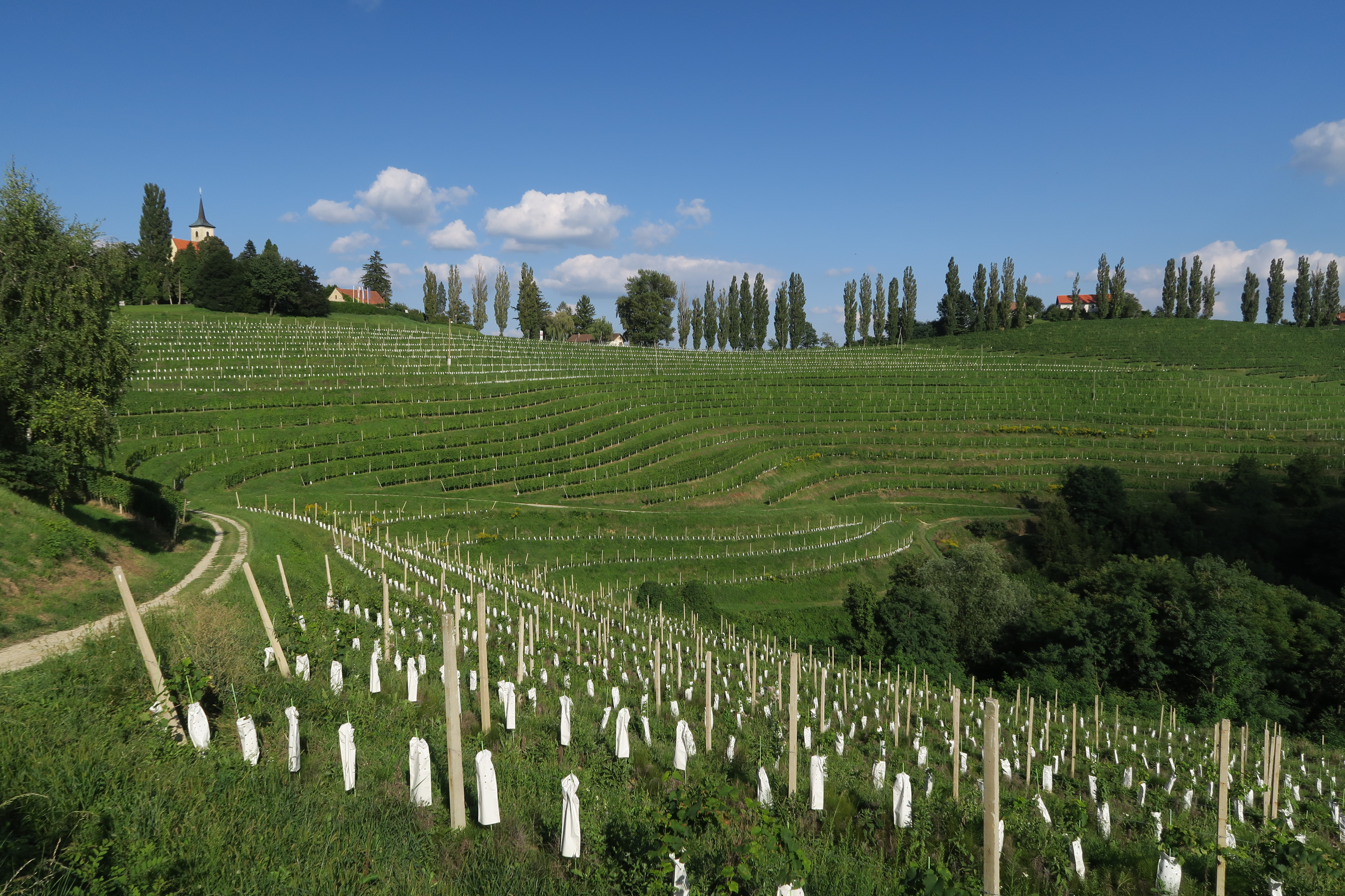 Jeruzalem Slovenia